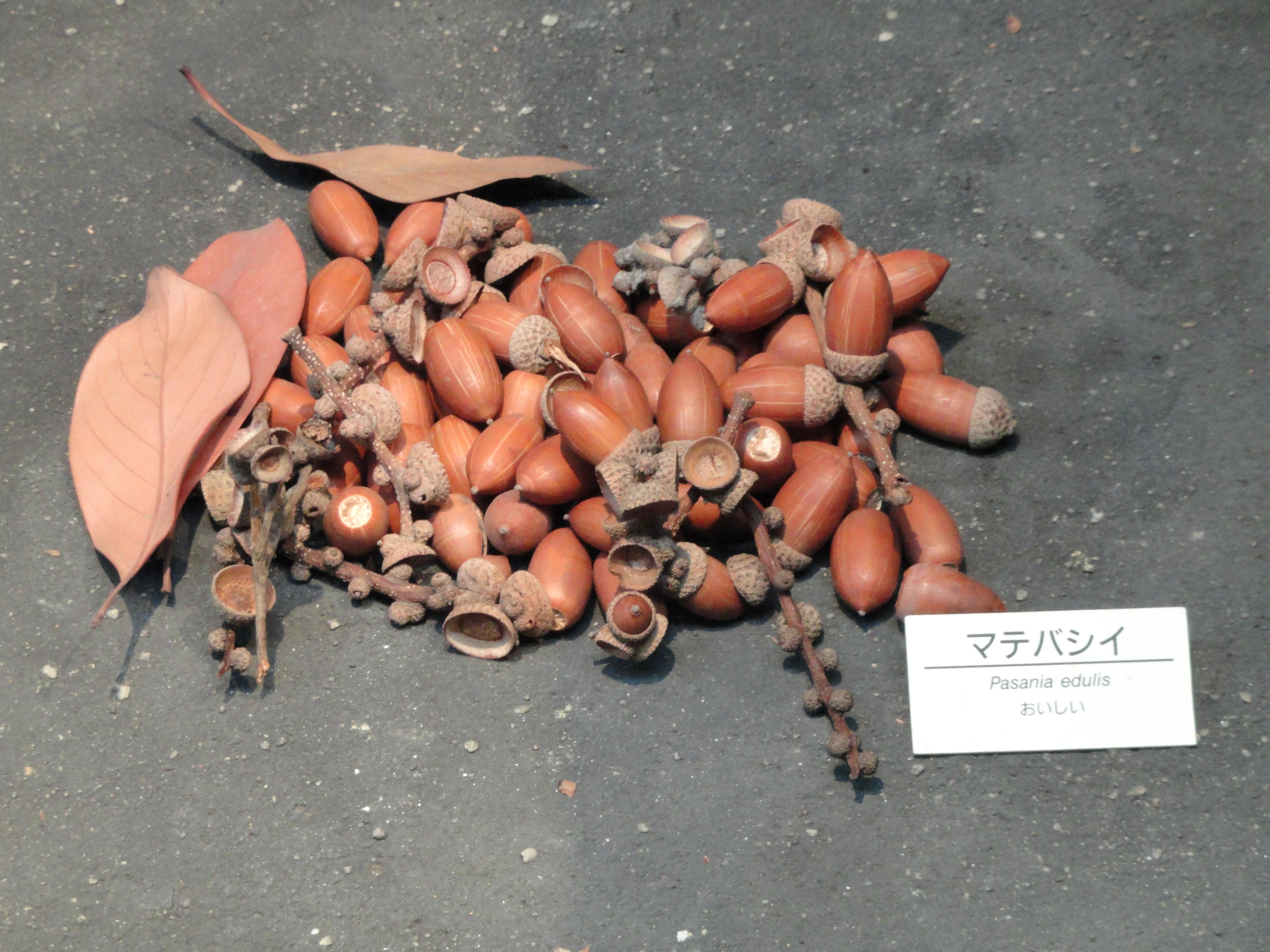 Exhibit in the Osaka Museum of Natural History, Osaka, Japan.